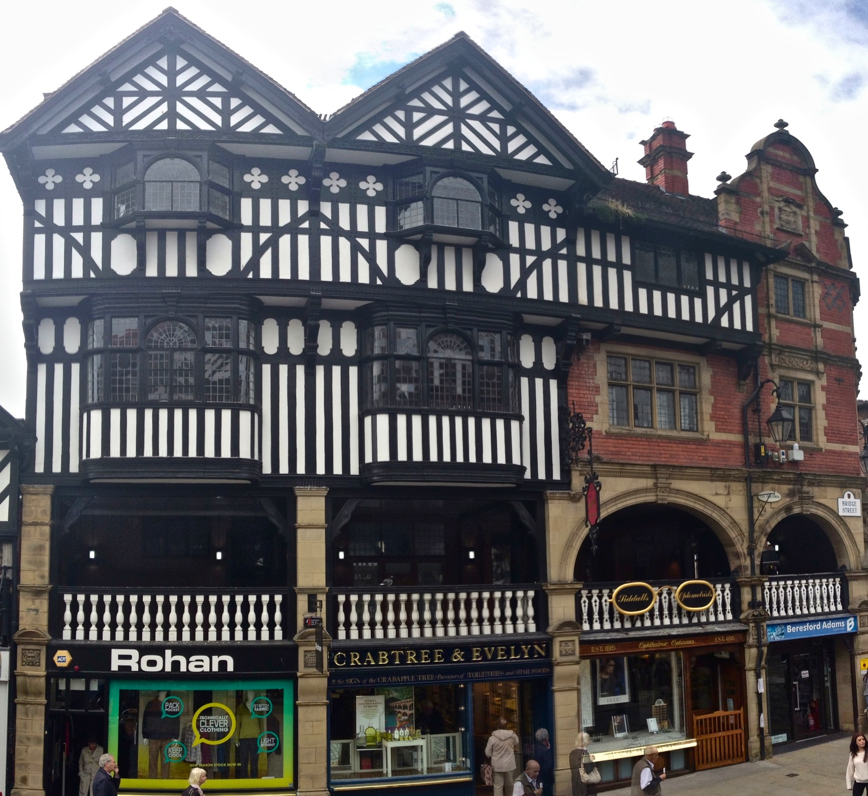 Number 1 Row Number 2-8 Street Numbers 1 and 3 Street Numbers 2-6 and 8 (part) Row